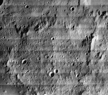 Lunar crater Birmingham. Photo by Lunar Orbiter 4.